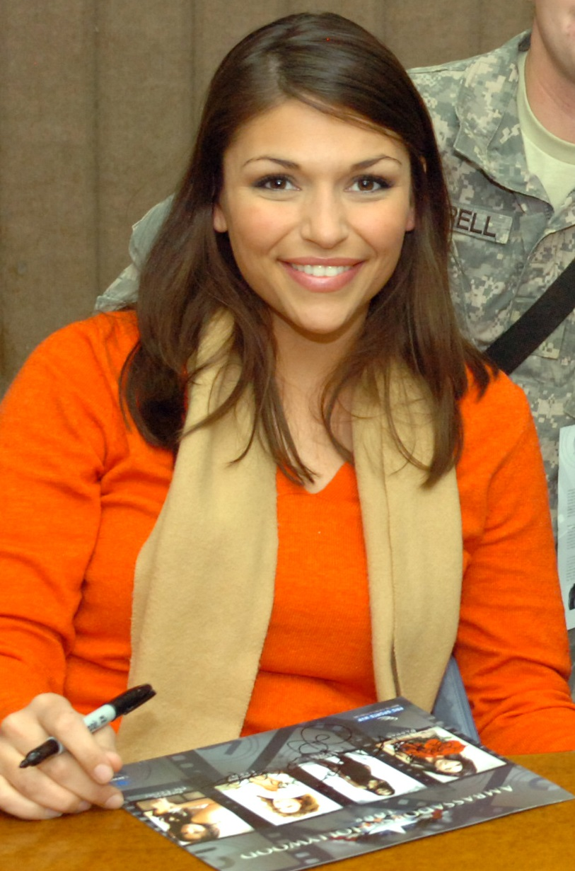 American TV personality DeAnna Pappas poses for a personal photograph on the USO's Ambassadors of Hollywood Tour, at Contingency Operating Base Speicher, near Tikrit, Iraq, Jan. 10, 2009.